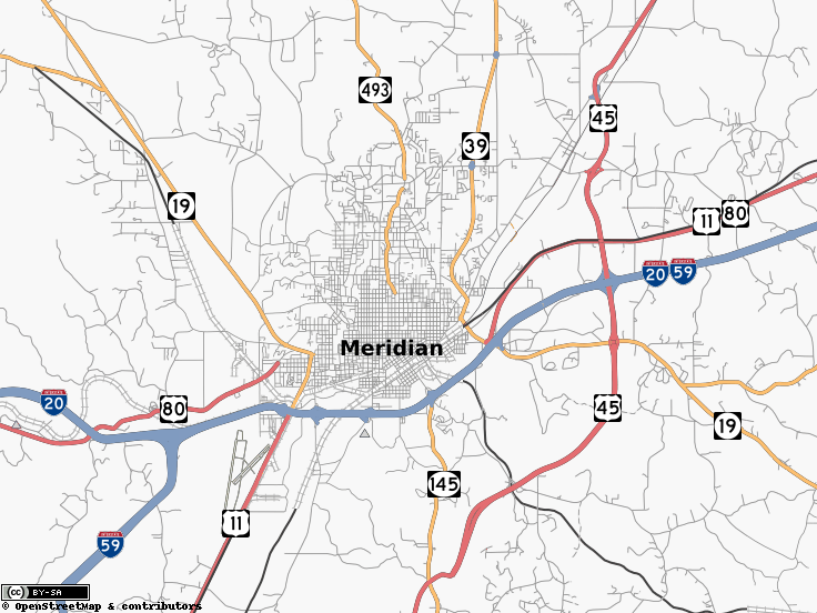 A map of Interstate, U.S., and State Highways in Meridian, Mississippi. OpenStreetMap cut-out (or derivative work based on it): without further description This cut-out may be incomplete, and may contain errors, or may be obsolete. Don't rely solely on it for navigation. See the image in the present state and its original context on the Mississippi OpenStreetMap wiki page for Meridian, Mississippi